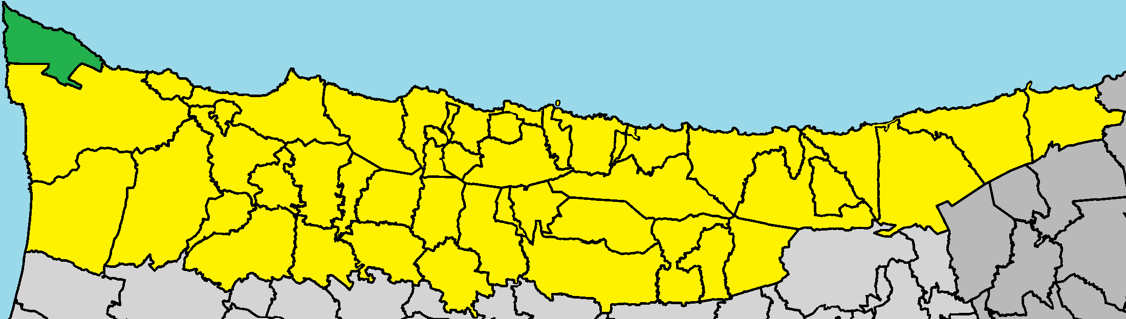 Livera in Kyrenia District (de jure).